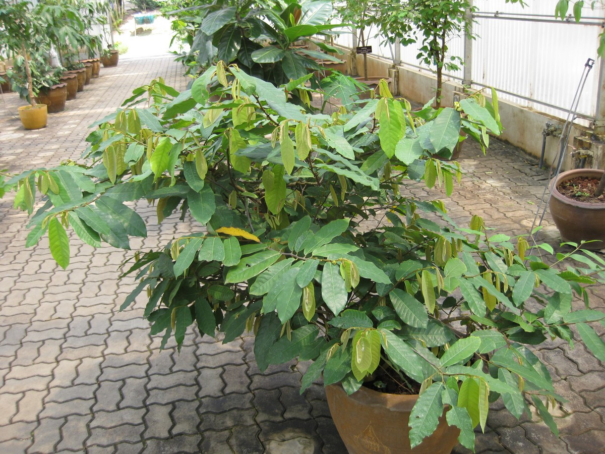 Photographed at the Queen Sirikit Botanic Garden (Chiang Mai Province, Thailand) in March